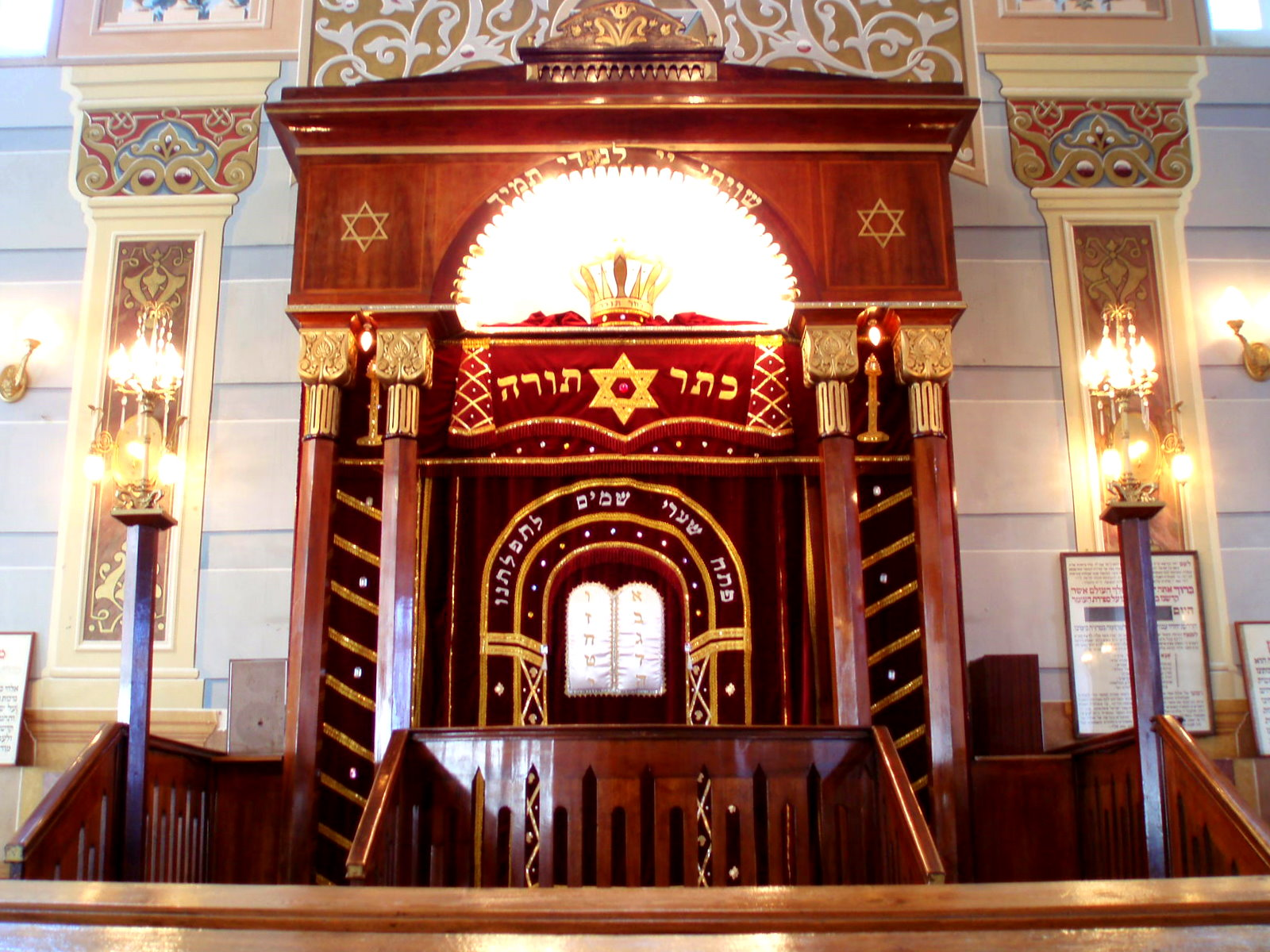 The Synagogue in Tbilisi Georgia